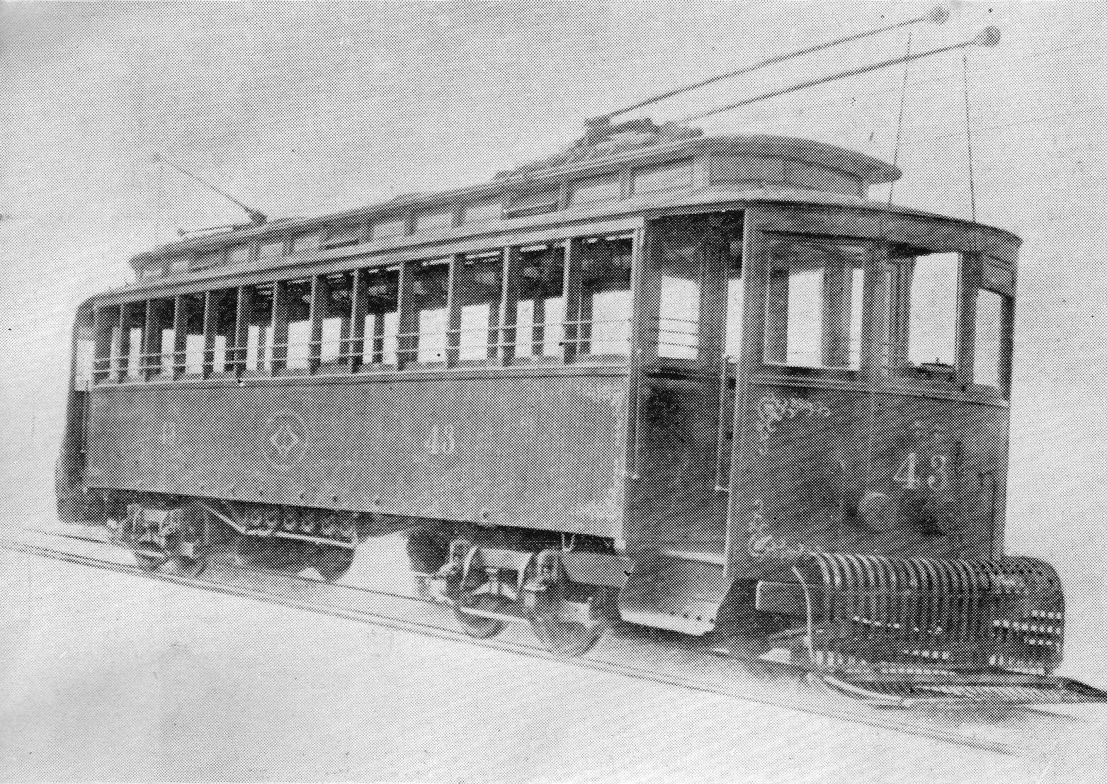 Hanshin Electric Railway #43.